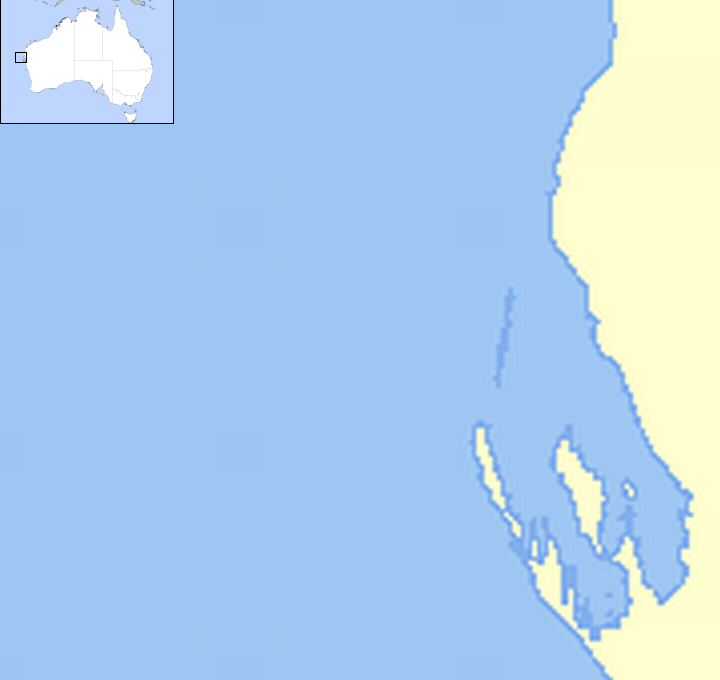 Location map for Shark Bay, Western Australia